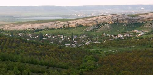 A view on Bielokamiennoye / Süyür Taş village